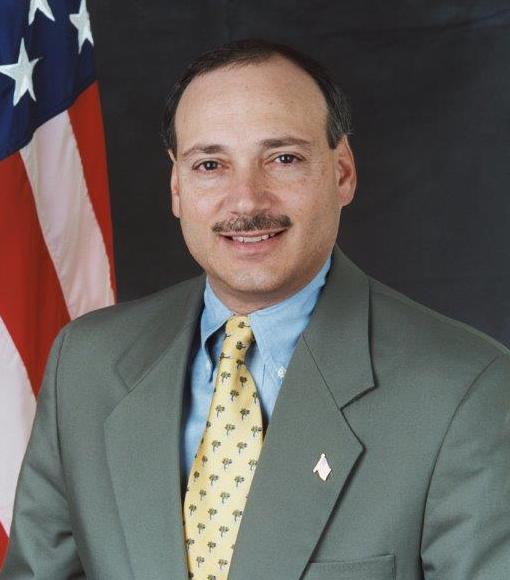 Assistant Secretary of Labor for Administration & Management Patrick Pizzella (2001-2009)